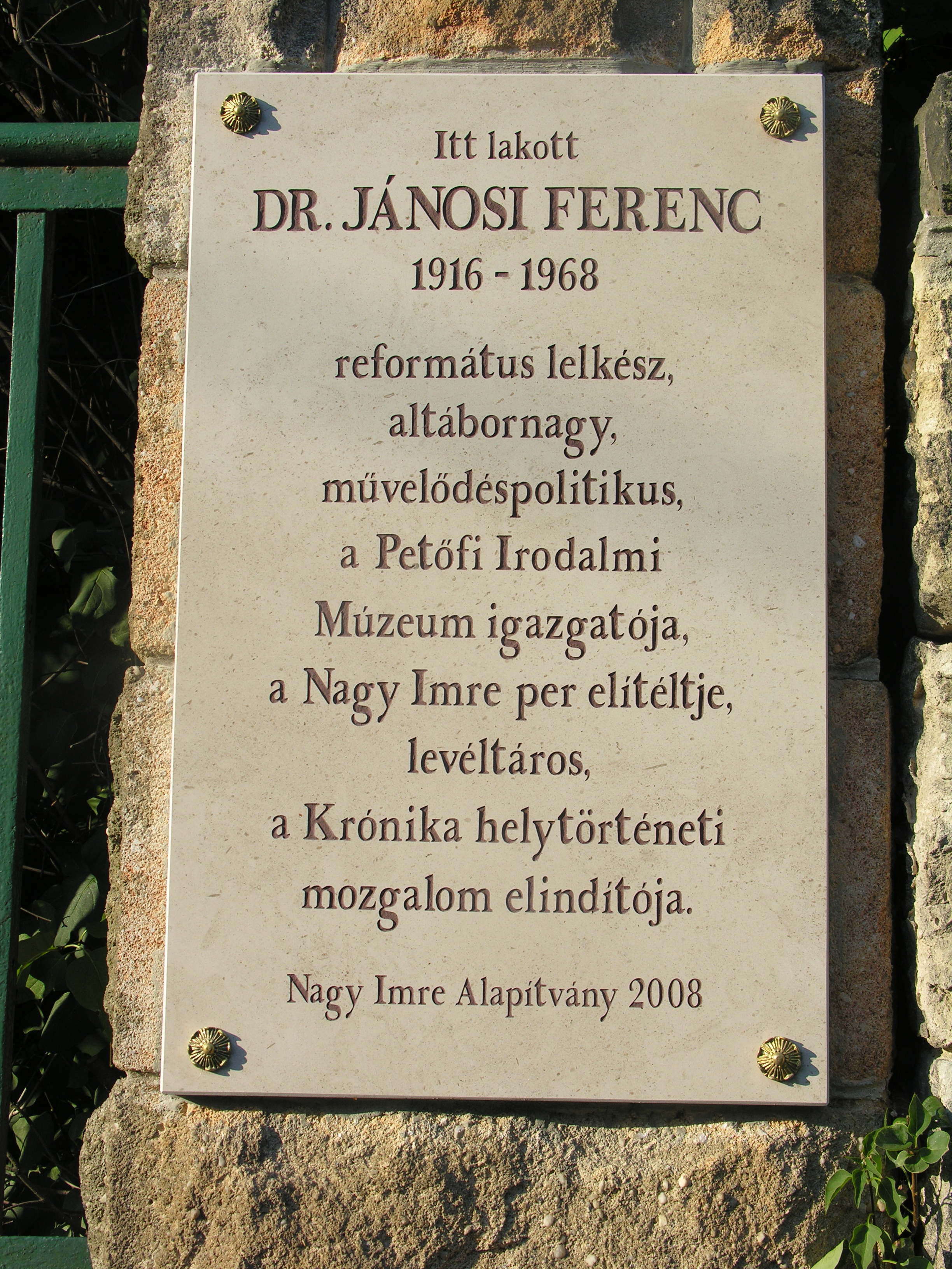 Commemorative plaque of Ferenc Jánosi in Budapest District II, Orsó Street No 43